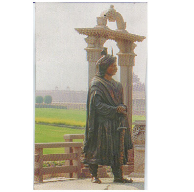 Samraat Mihir Bhoj was the greatest ruler of Gurjar Pratihar Dynasty.This picture has taken from akshardhams magzine.